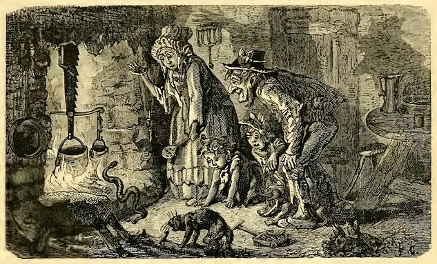 Aesop's fable of the countryman and the viper illustrated by Ernest Griset, 1870s